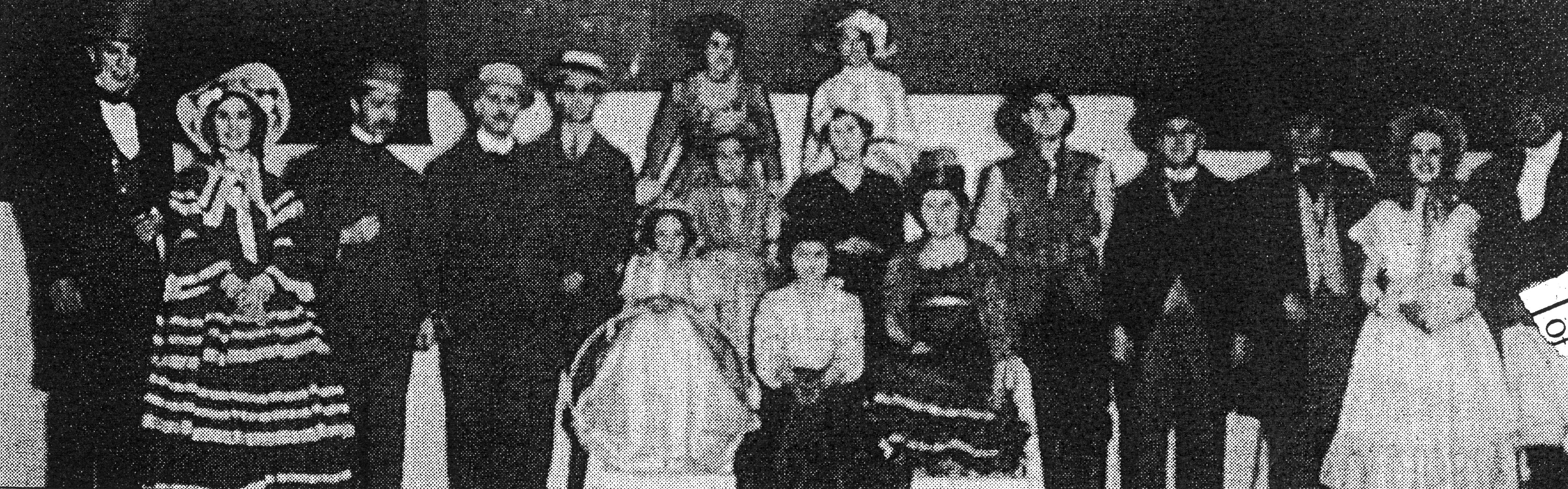 Image of some of the participants in the Herne Bay Pageant of 1937, written and directed by Will Scott (1893-1964). Back row, left to right: Lawrence Noble, Eileen Wilson, John Hawkins, Owen Williams, Benny Blackbourn, Dorothy Newson, Mildred Gurling, Peter Hayward, A.E. Gurling, Ken Cartwright, Paddy Gannon, E.G. David. Grouped on the steps: Jean Frankling, Phyllis Palmer, Edith O'Brian, Joan Wilson, Margot Bisping. Image quality: This image first appeared in the souvenir programme of 1937, then was reproduced in the Herne Bay Gazette on 8 January 1998 on page 8 in the "Remembeer When?" column. It was then microfilmed, then photocopied by Herne Bay Library. What you see here is a scan of the photocopy, which accounts for the poor quality of reproduction.